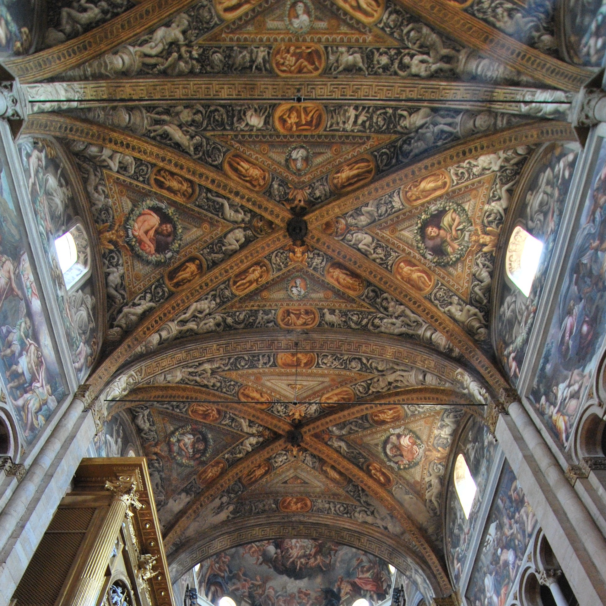 Parma cathedral vault